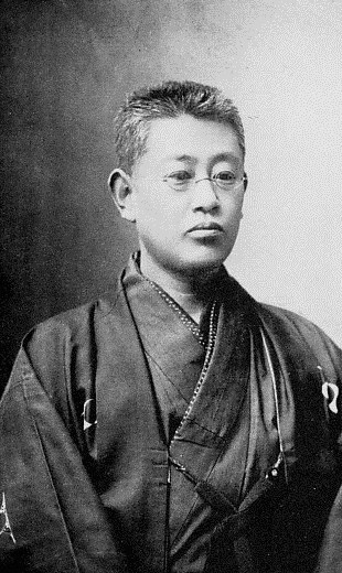 Kazukiyo Otawara